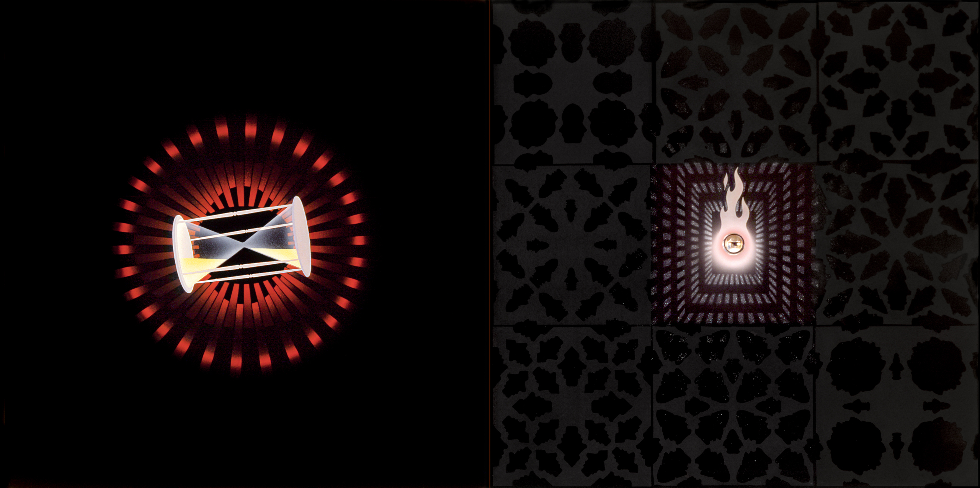 A work by Italian contemporary artist Enrico Corte from his "Cross Fade" series, 1987